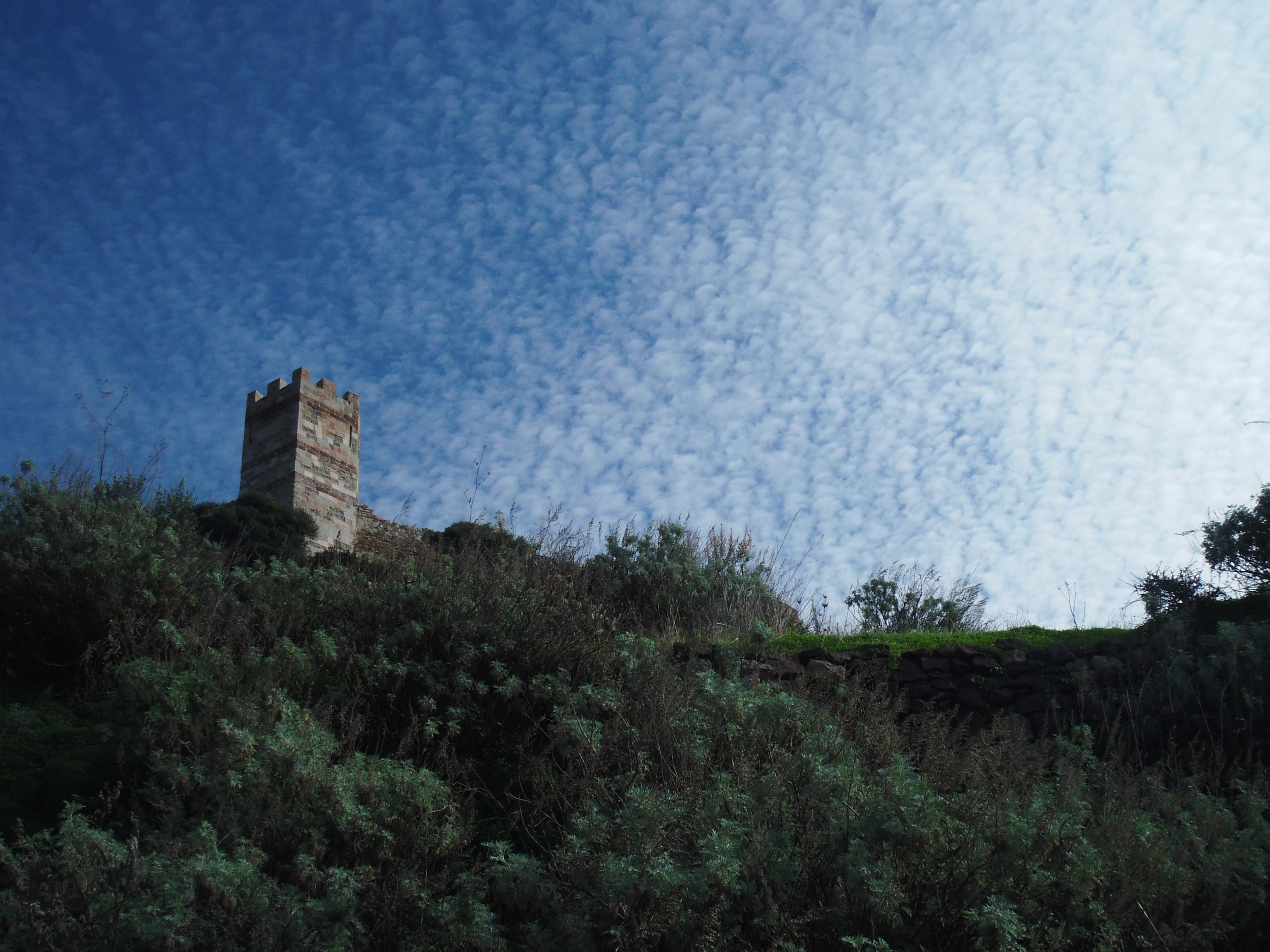 Bosa Castle